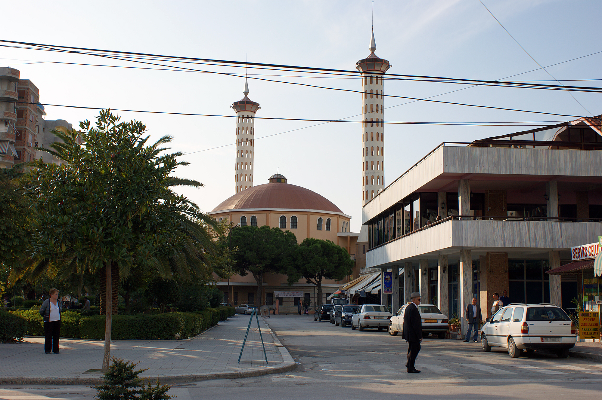 Downtown Fier (Albania) – city park and mosque